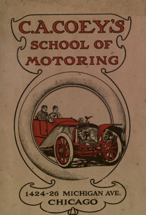 C.A. Coey's School of Motoring, 1424-26 Michigan Ave. Chicago (c1912) book cover